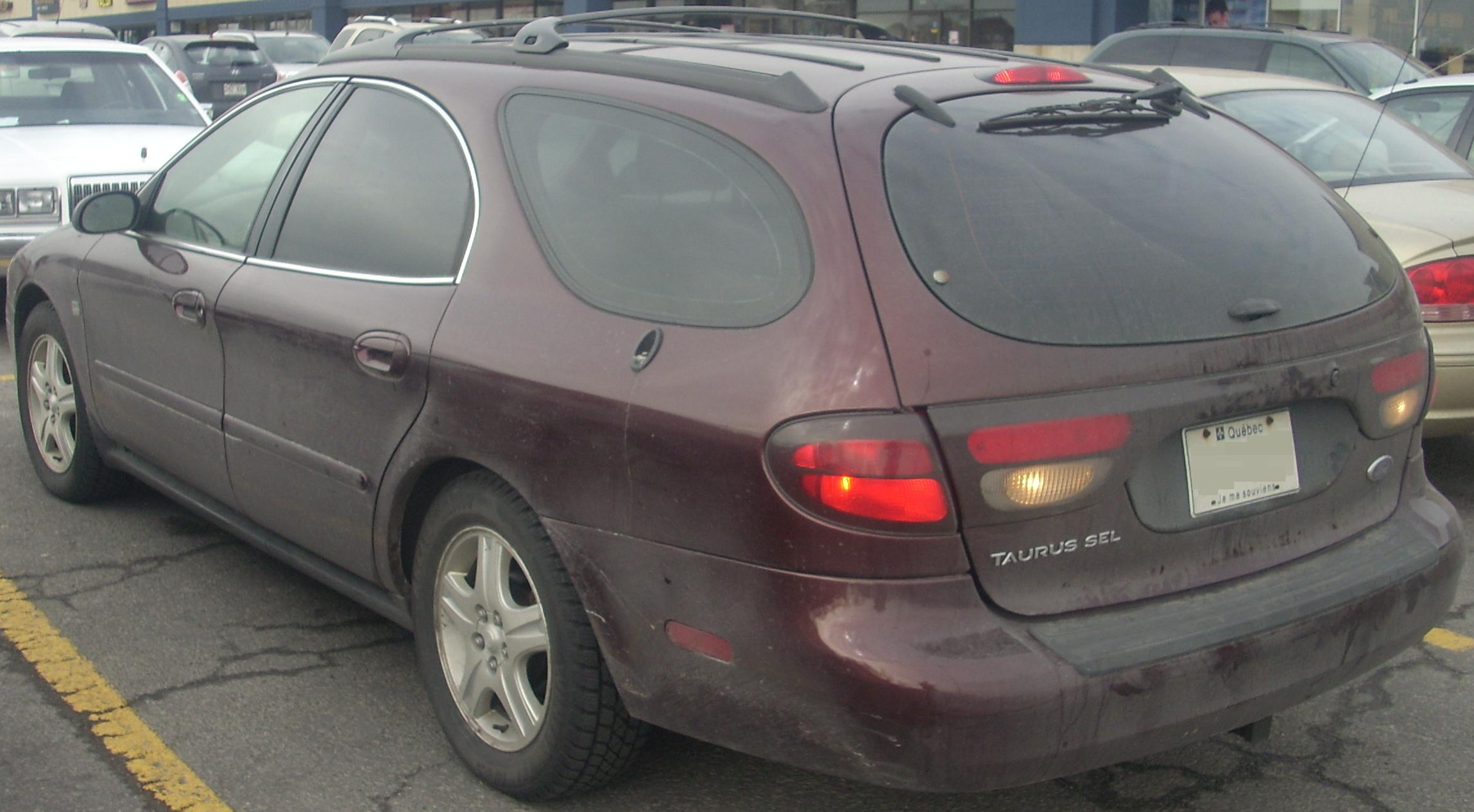 2000-2003 Ford Taurus photographed in Dollard des Ormeaux, Quebec, Canada